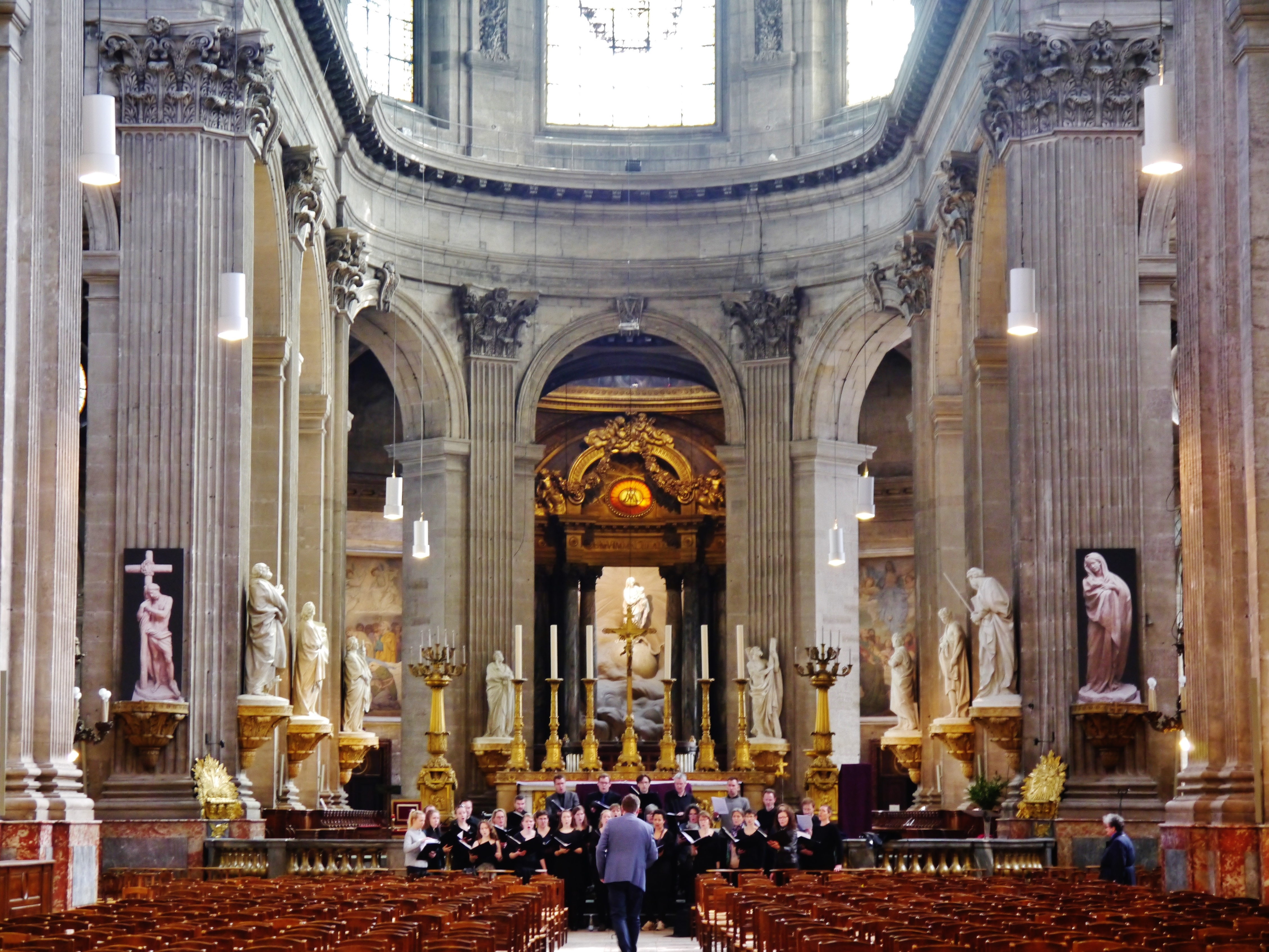 Choir of the Church of St. Sulpitius, Paris, Region of Île-de-France, France